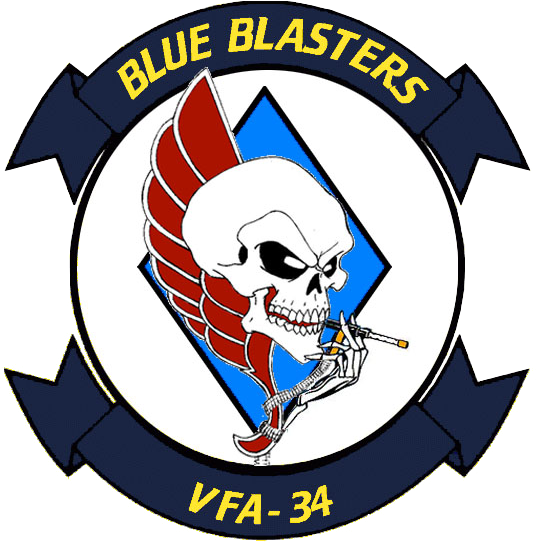 Insignia of the U.S. Navy Strike Fighter Squadron 34 (VFA-34) "Blue Balsters". The insignia was approved on 10 May 1999.